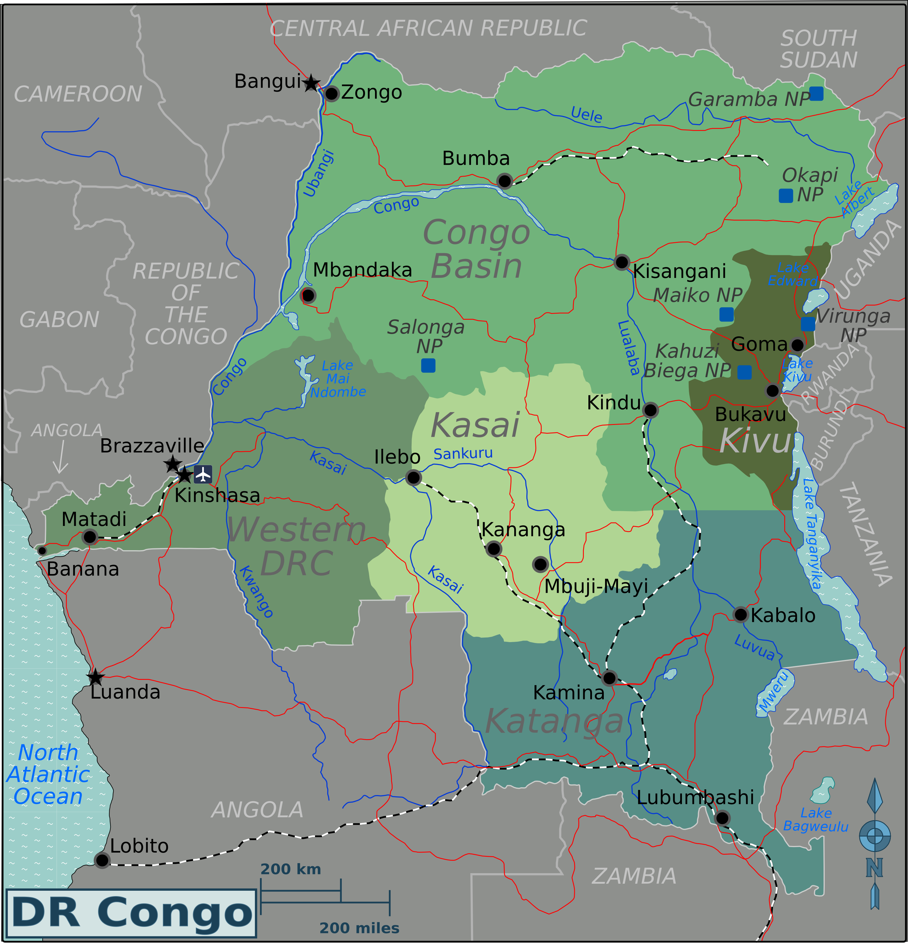 Regions of the DRC